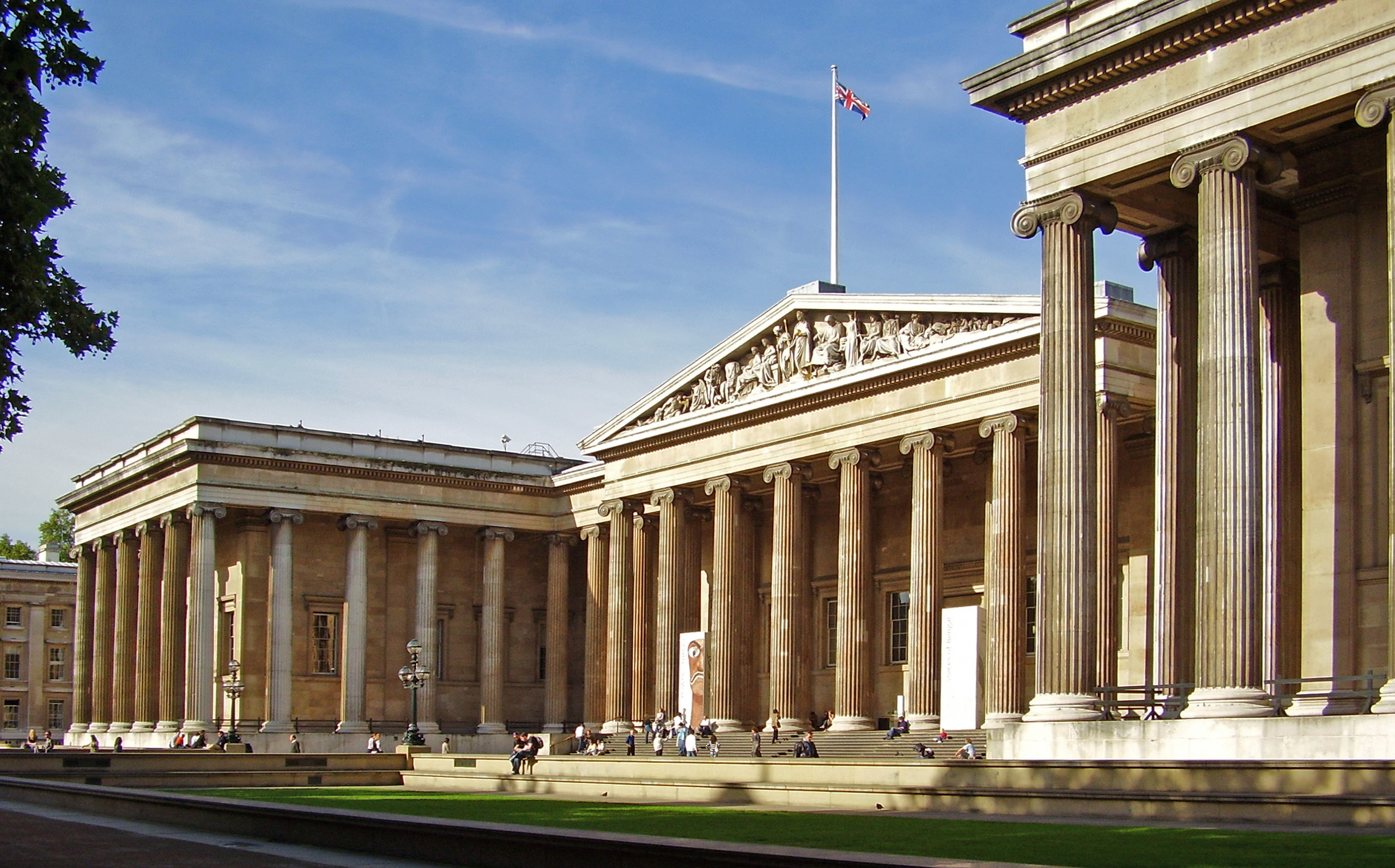 Façade of the British Museum